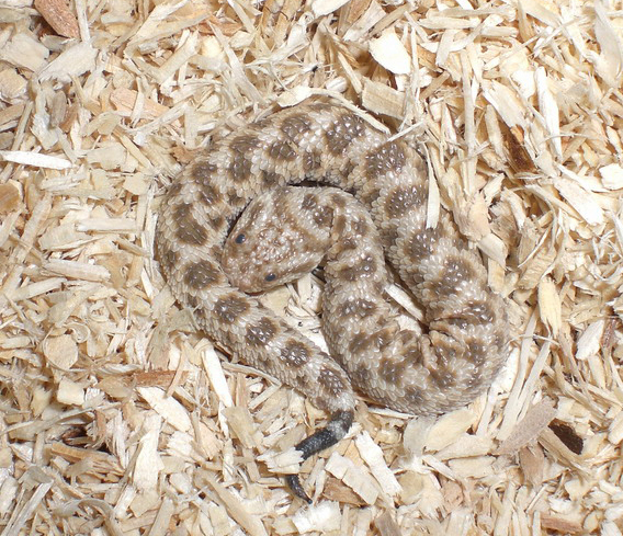 My newborn cerastes vipera; cropped from File:My_cerastes_vipera.jpg by Achim Raschka